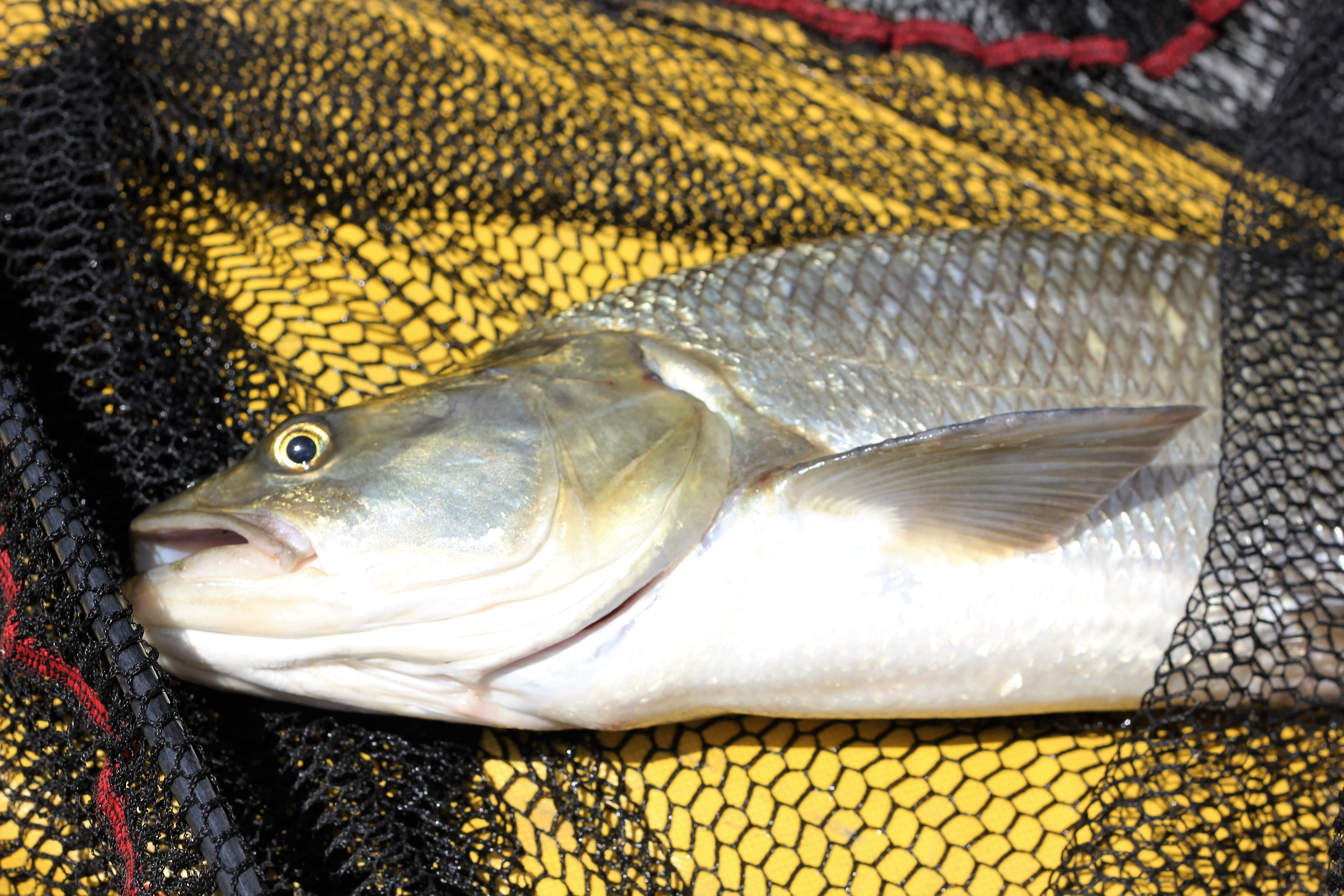 A 4kg asp caught in Biesbosch, NL